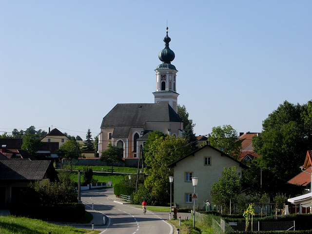 Road towards Rottenbach